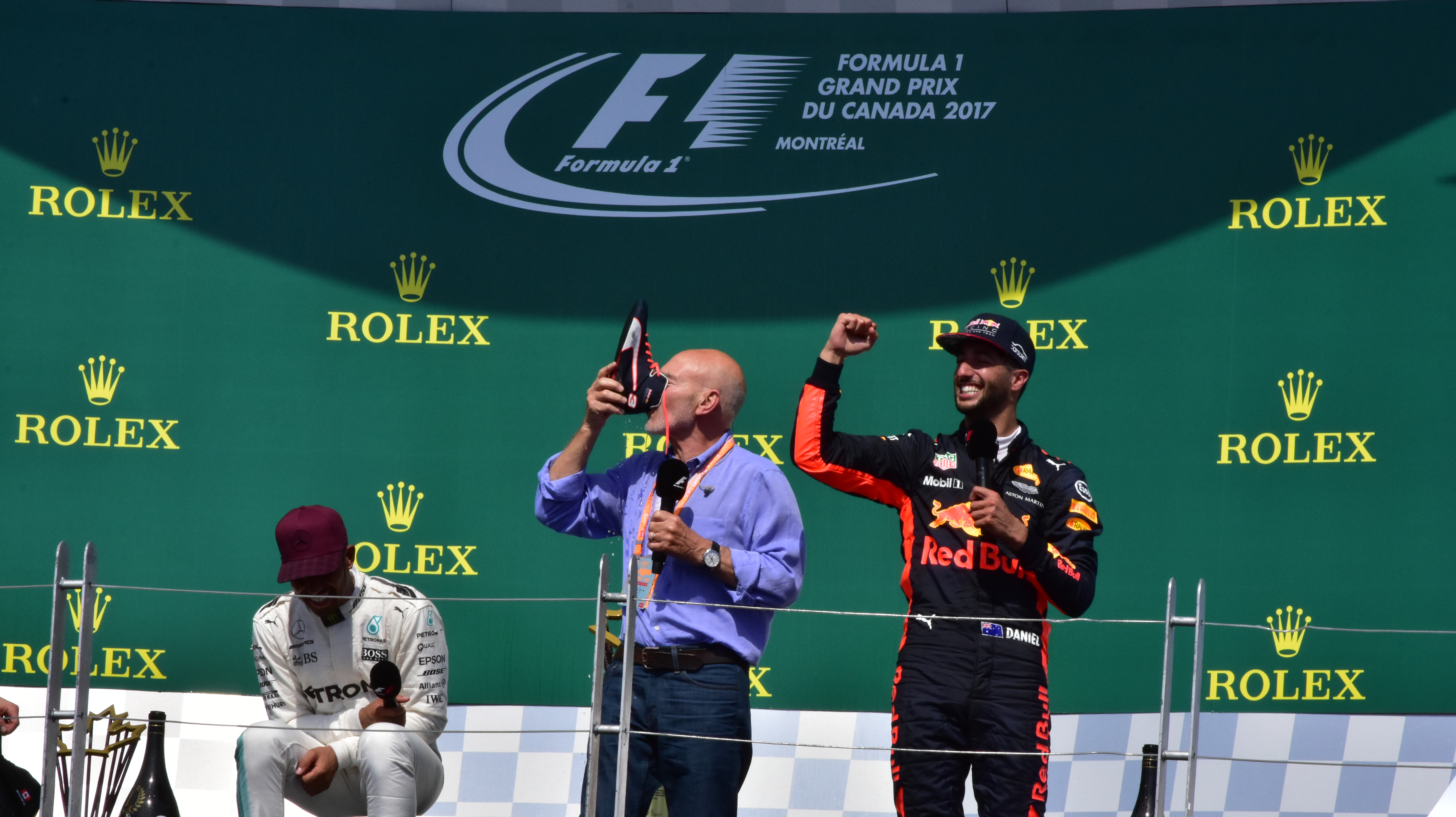 Daniel Ricciardo is so happy! He finally found a celebrity that wanted to do the "shoey" (drink champagne from his shoe). Patrick Stewart was a good sport!